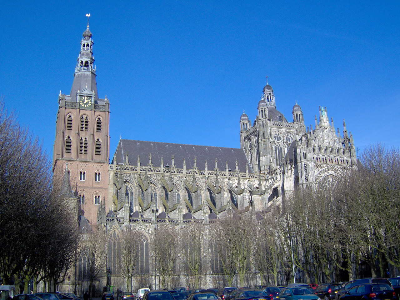 St. John's Cathedral, 's-Hertogenbosch